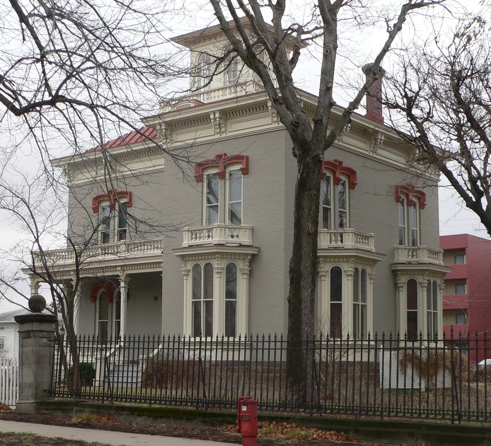 Thomas P. Kennard house, located at 1627 H Street in Lincoln, Nebraska; seen from the northwest.